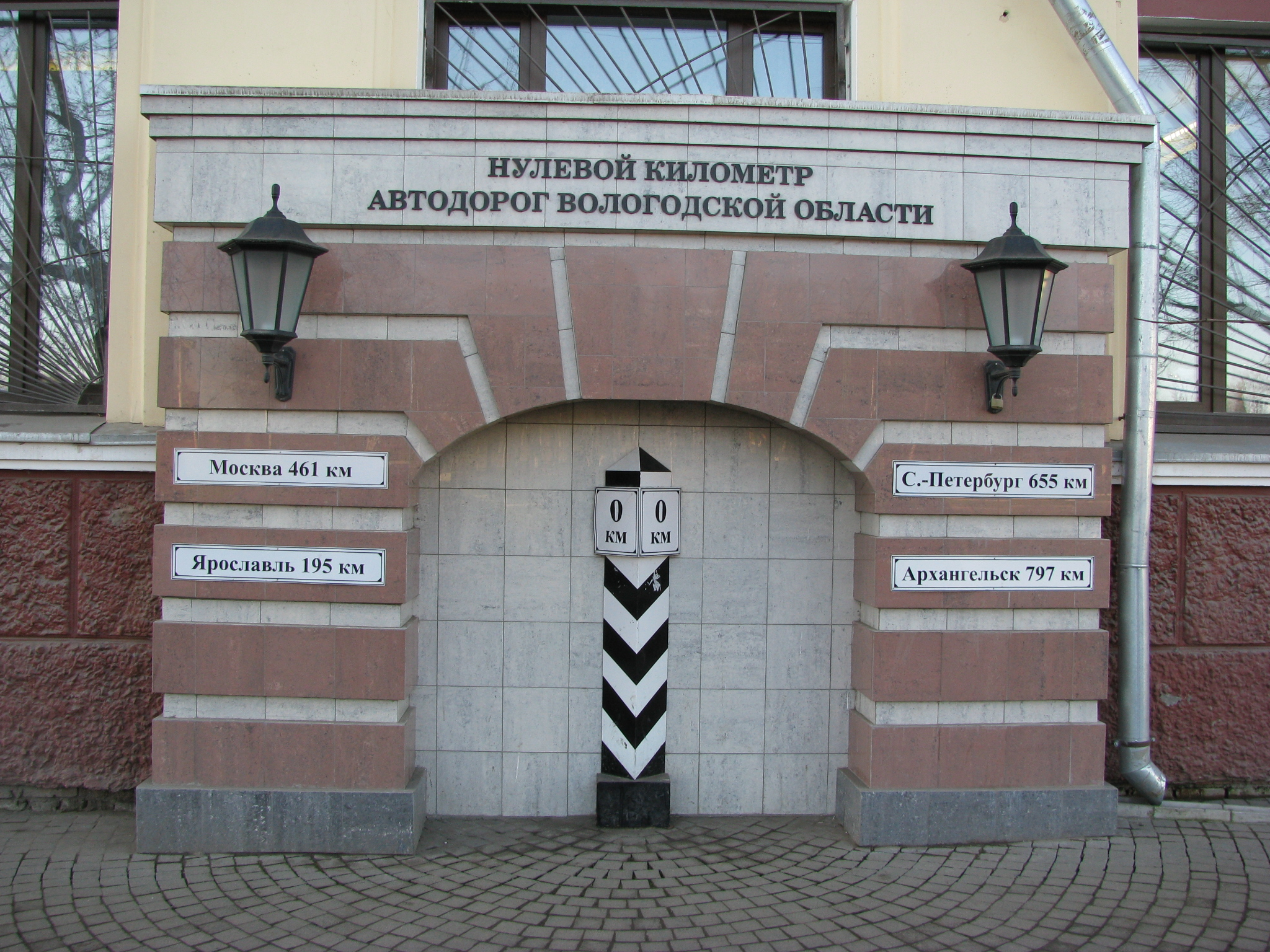 0 km in Vologda